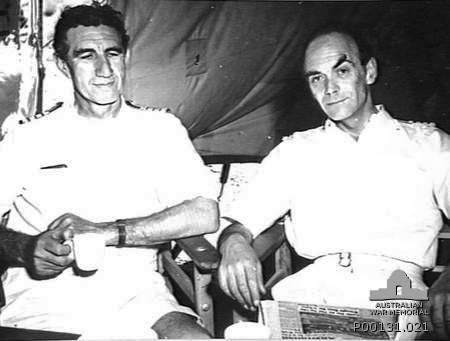 Captain (later Vice Admiral Sir) Alan McNicoll of the Royal Australian Navy and Captain Hutchison of the Royal Navy at Onslow, Western Australia in October 1952. Both men are naval liaisons to the British atomic tests on the Monte Bello Islands off the coast of Western Australia.